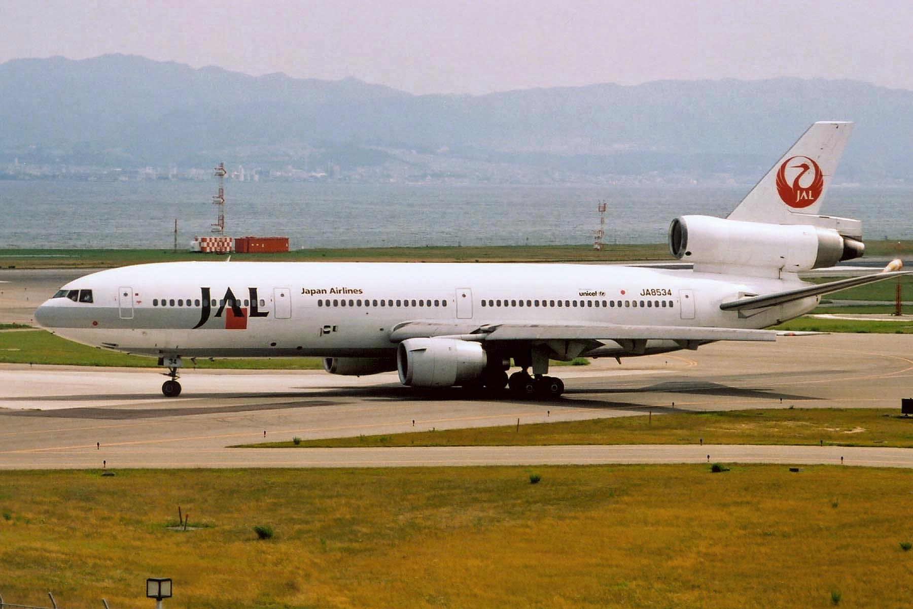 First DC-10-40I for JAL.